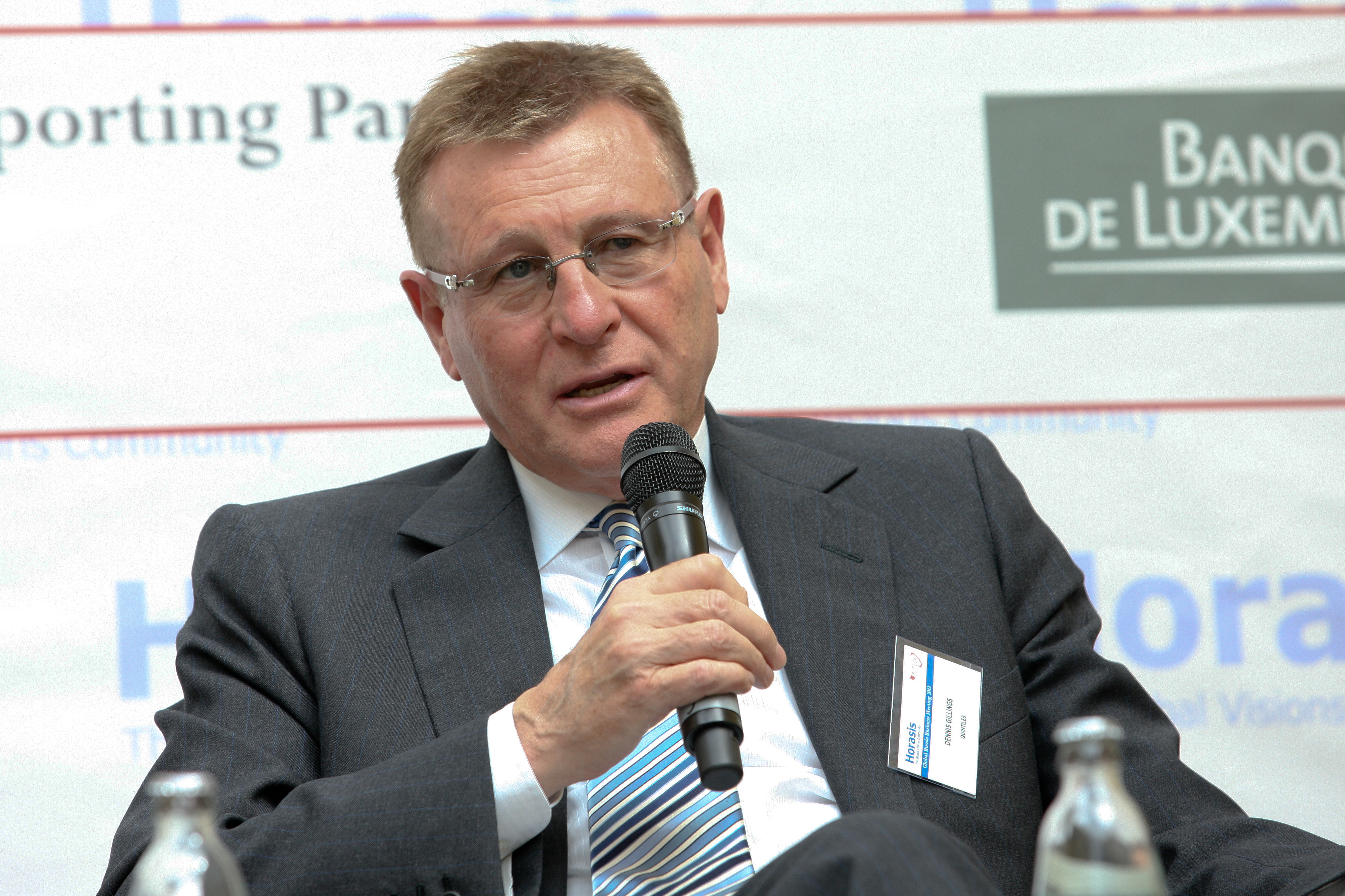 Dennis Gillings, Chairman and Chief Executive Officer, Quintiles, USA, 2012 Horasis Global Russia Business Meeting